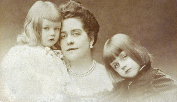 Aimee Crocker circa 1905 with adopted children Yvonne and Reginald